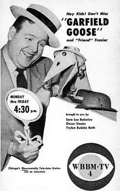 Early magazine ad for the program. The magazine, TV Guide and Forecast has not been in business since the 1950s. Copyright details There are no copyright marks on the full page of the ad, as can be seen at the link above. The dating timeframe above using the station's call letters and operating frequency as guides, establishes that the ad was published in 1953. Notice was not shown on the image, as was then required. Copyright searches were done on the following without any results: Garfield Goose Frazier Thomas WBBM-TV TV Guide and Forecast There is no evidence any of the parties listed claim copyright on the image.